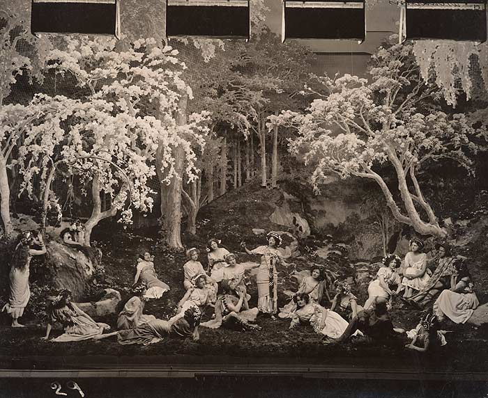 Photo from The Arcadians, 1909.